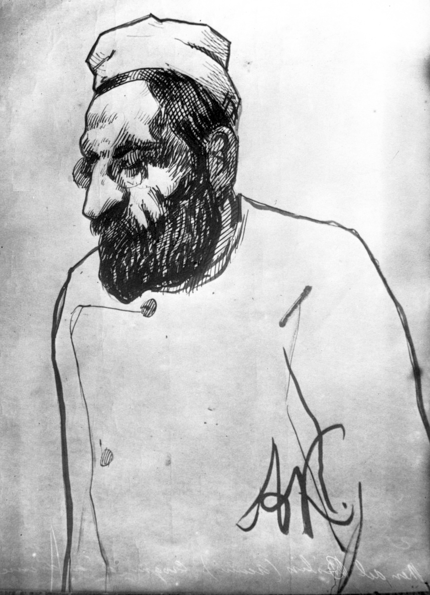 Drawing of Menahem Mendel Beilis made during trail at "Beilis Affair" of 1913